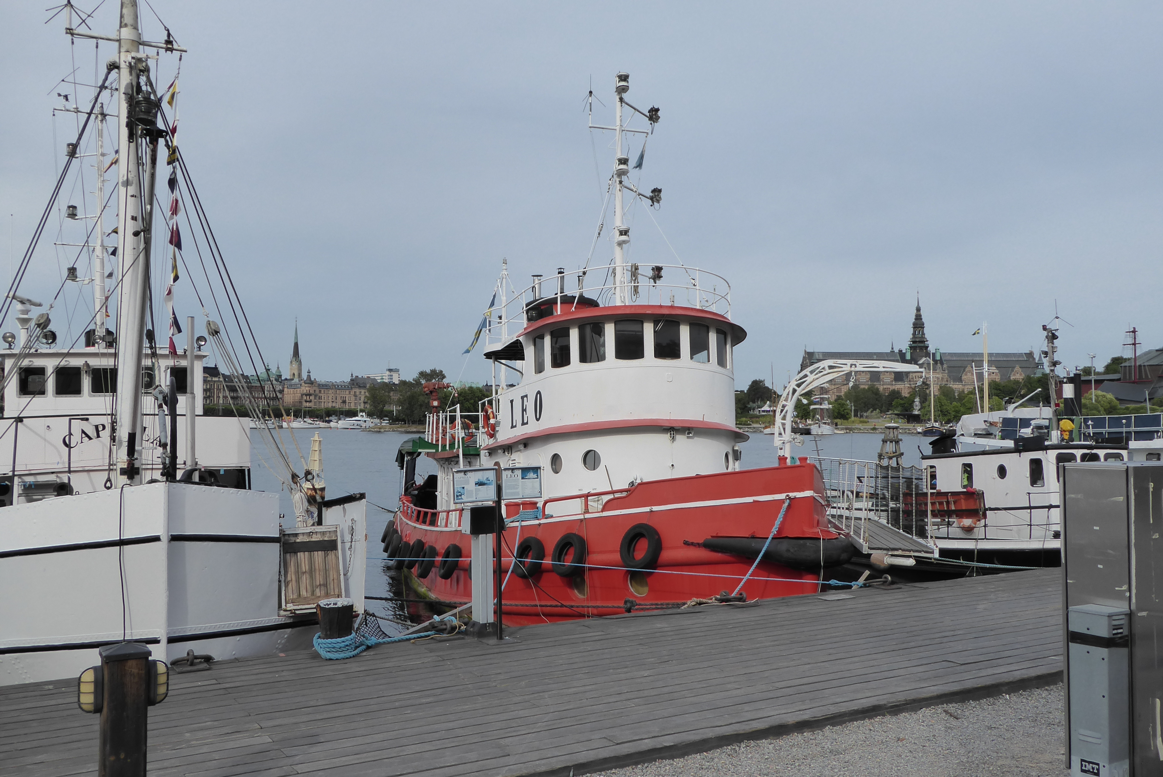 Bogserbåten Leo, vid Brobänken på Skeppsholmen, Stockholm